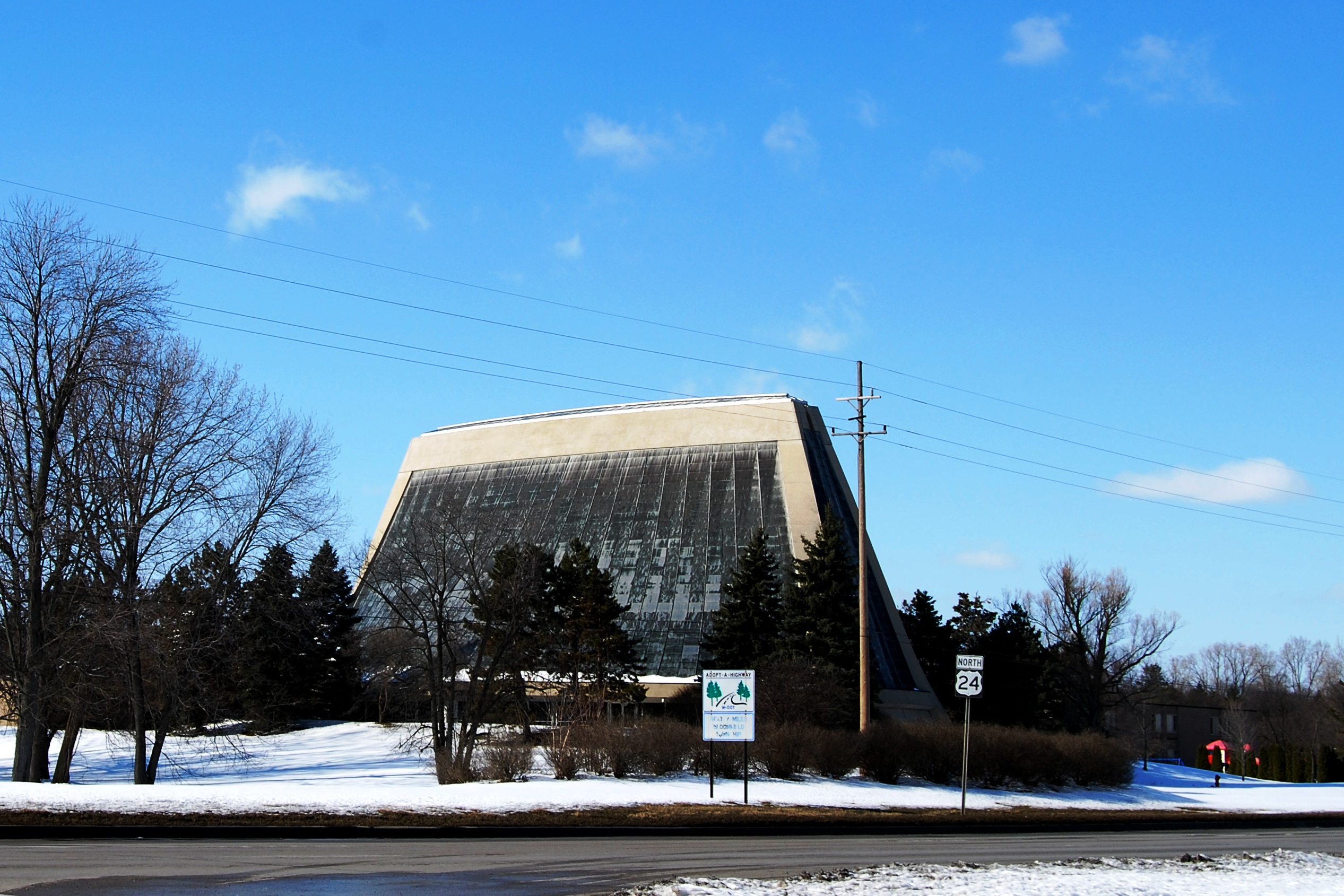 Temple Beth El — 1973 temple (third), designed by Minoru Yamasaki in the Modernist style. Located in Bloomfield Hills, Metro-Detroit, southeastern Michigan.